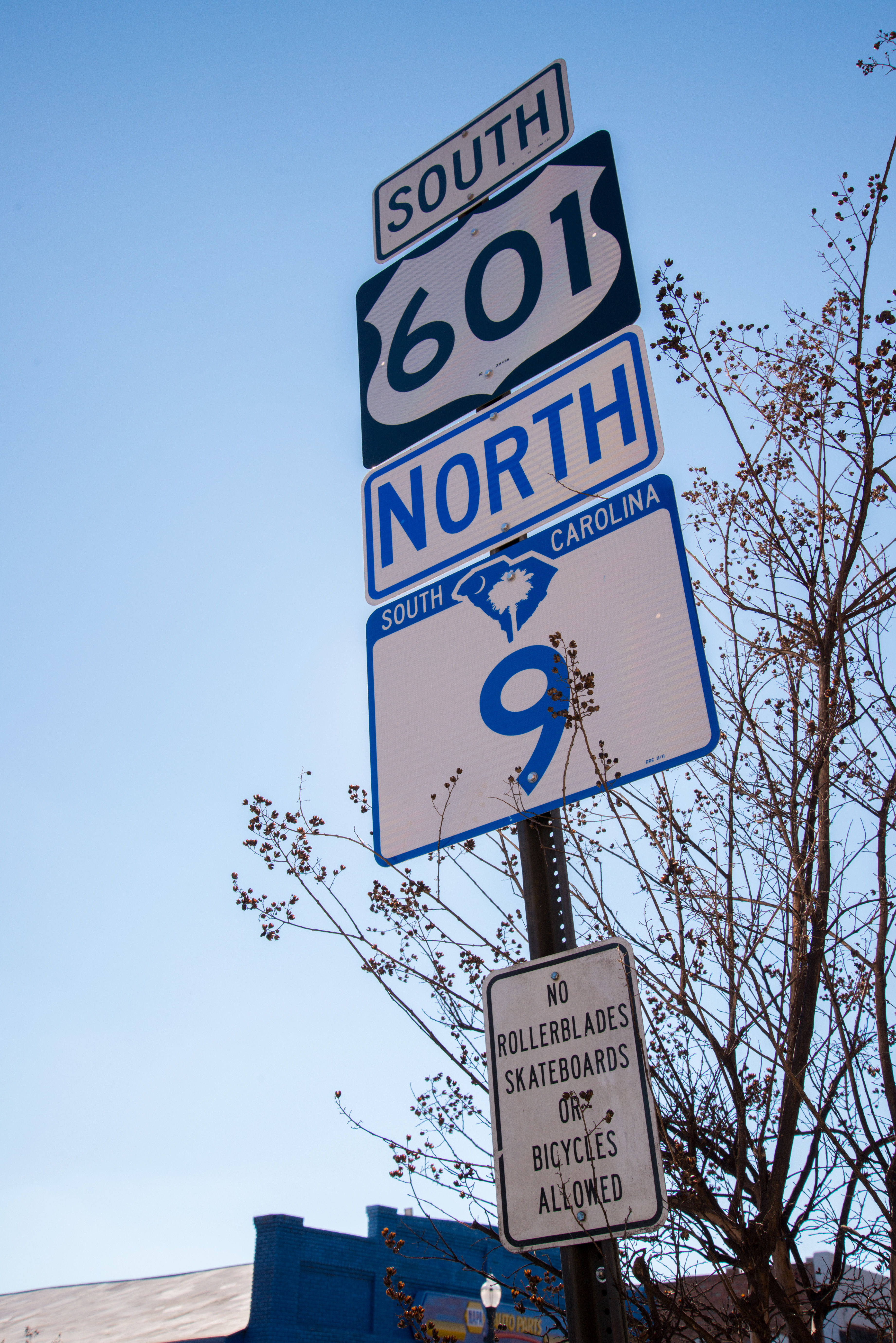 Southbound U.S. Route 601 and Northbound South Carolina Highway 9, along McGregor Street in downtown Pageland, South Carolina.